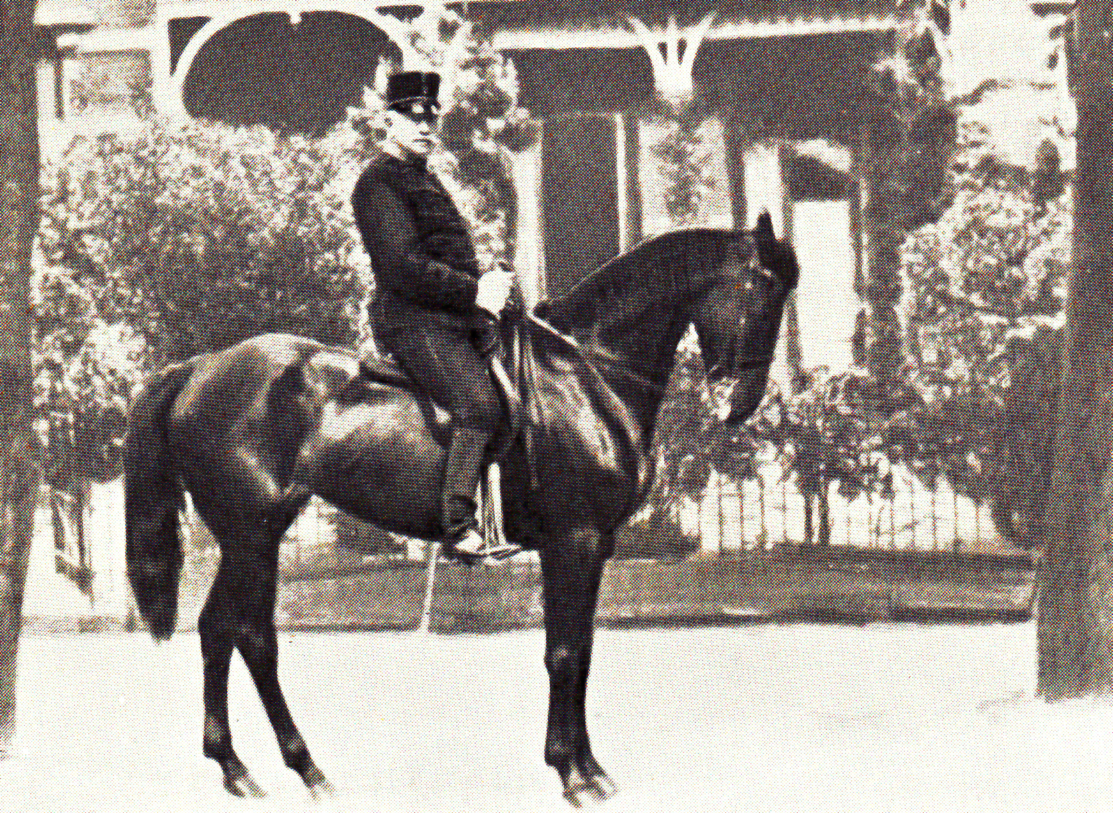 Wouter Cool te paard